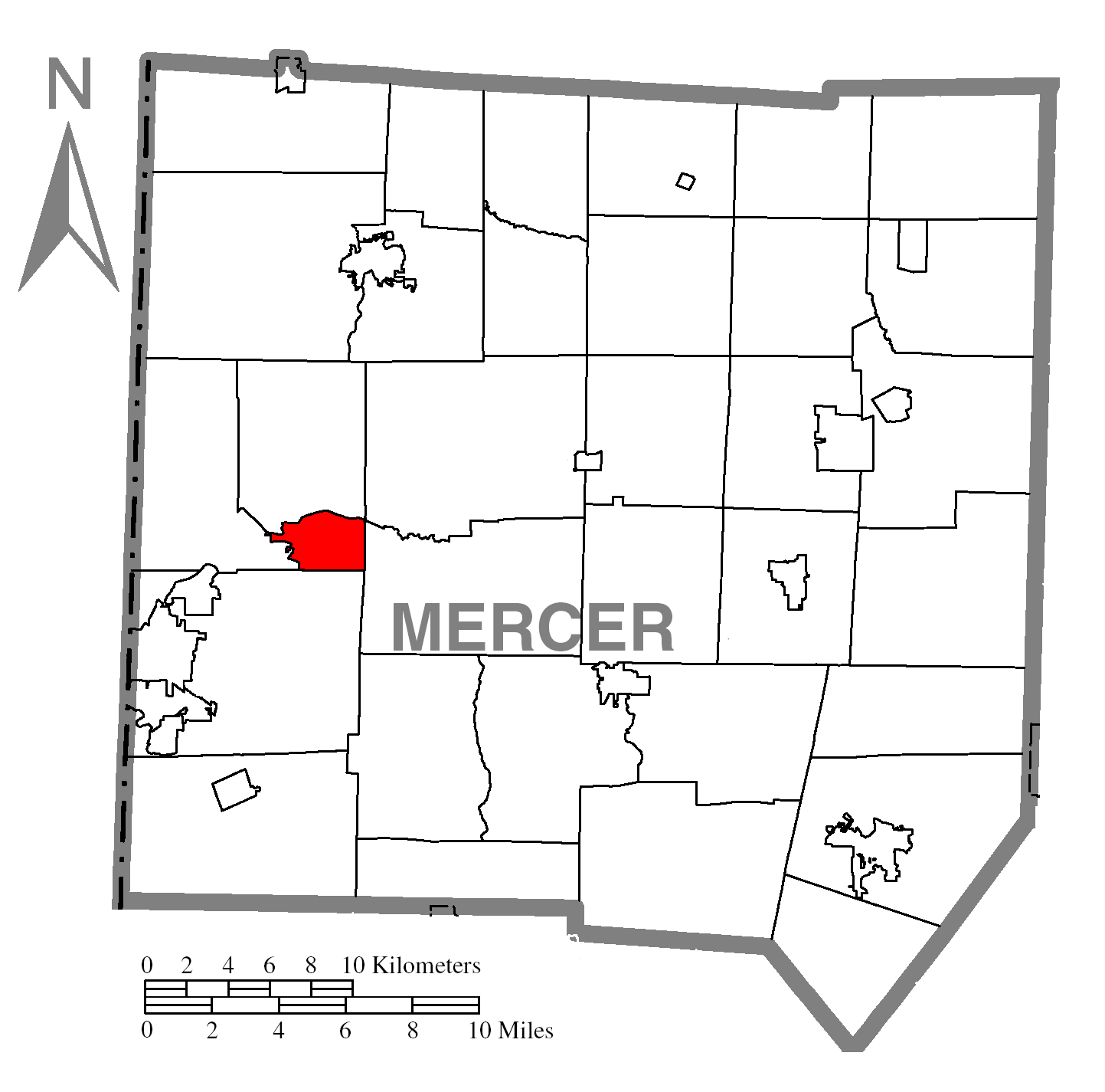 Map of Mercer County higlighting Clark.